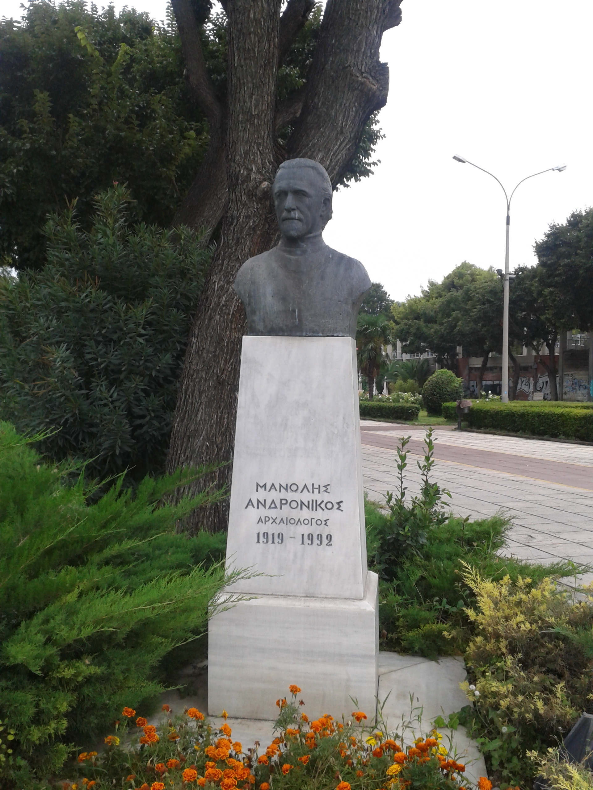 Manolis Andronikos Statue in Thessaloniki